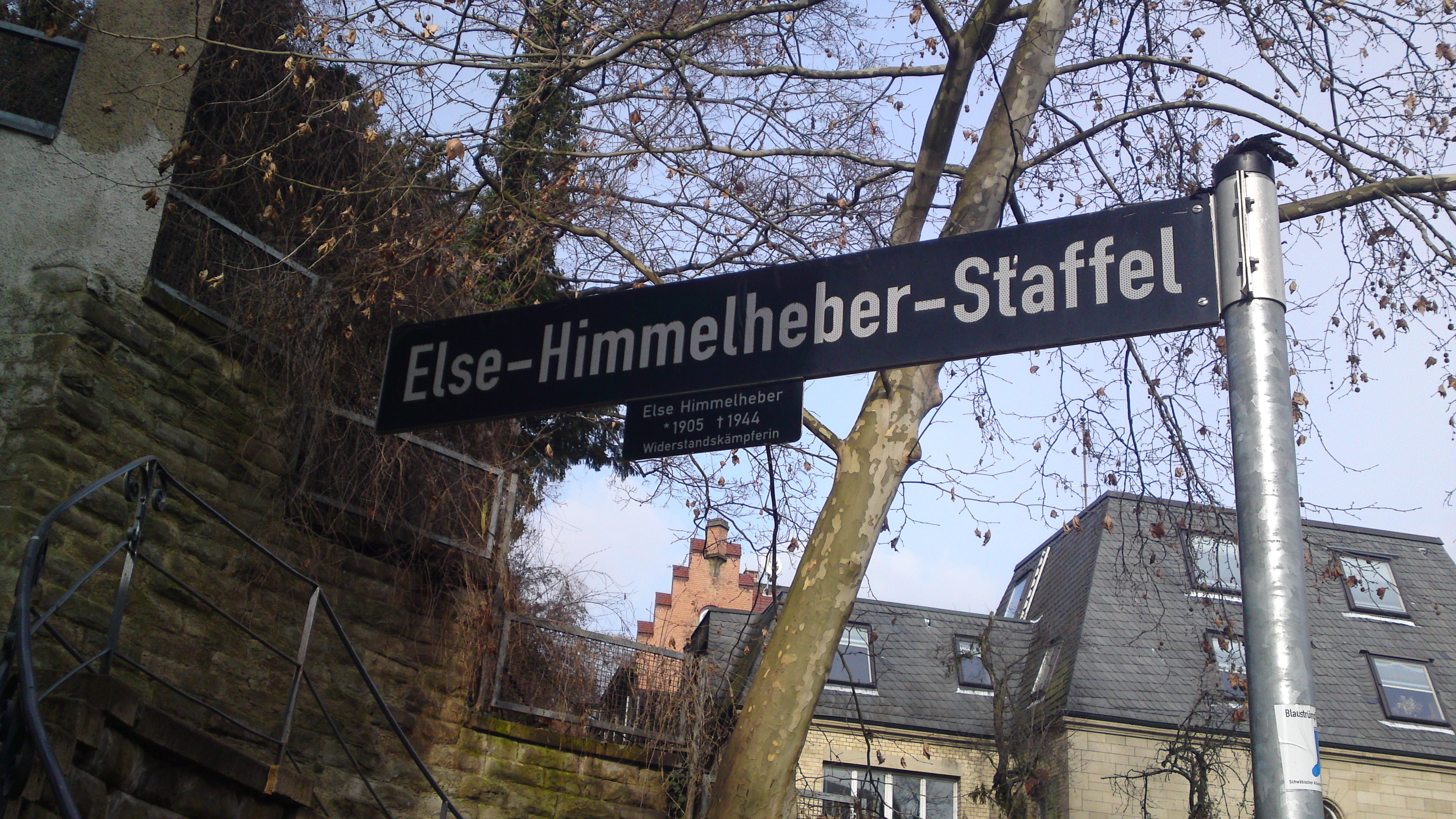 Else-Himmelheber-Staffel in Stuttgart.